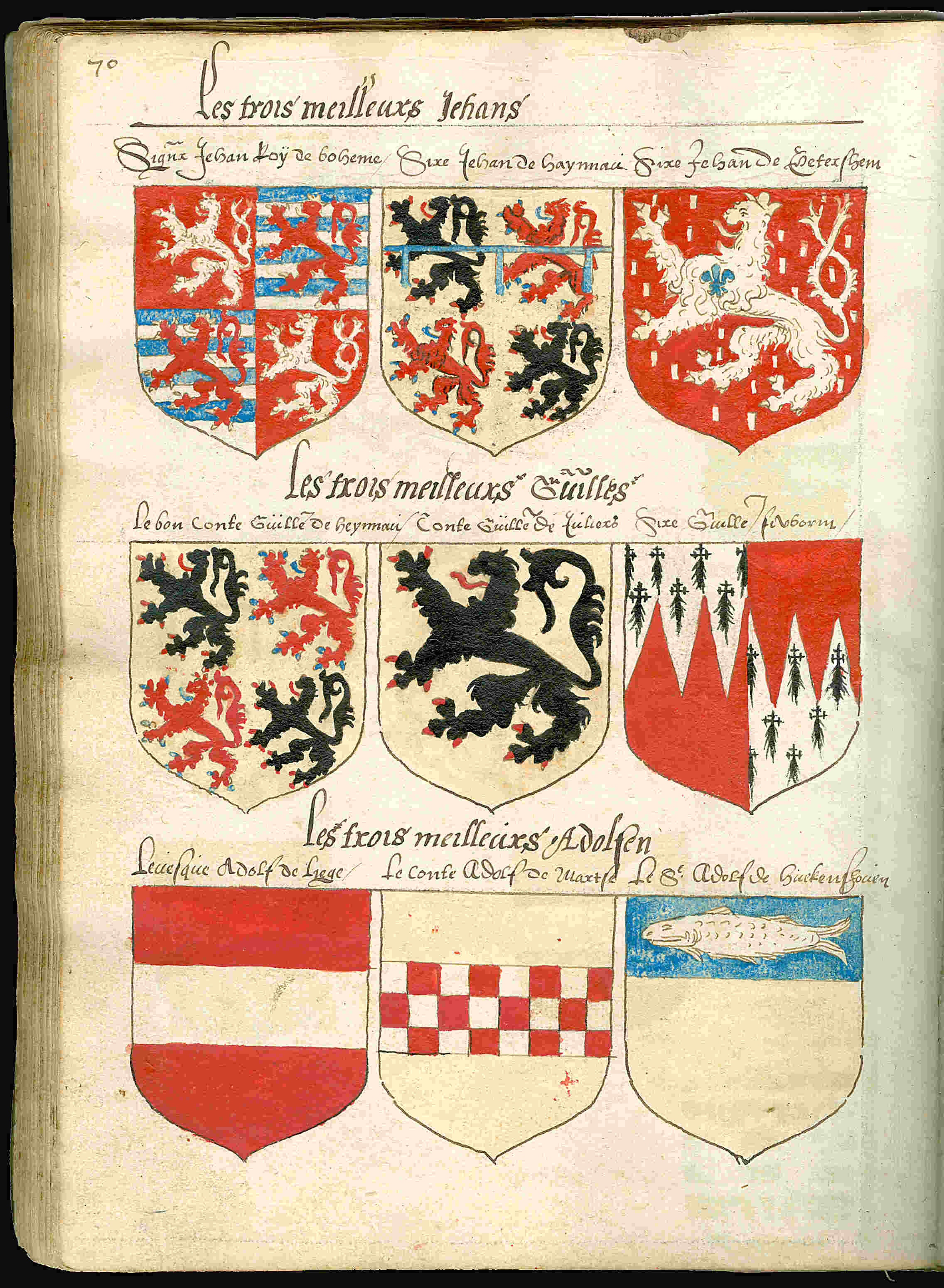 Page 70 from a copy of the Beyeren armorial / Wapenboek Beyeren from ca. 1600. The original Beyeren armorial from 1405 can be viewed at the website of the KB